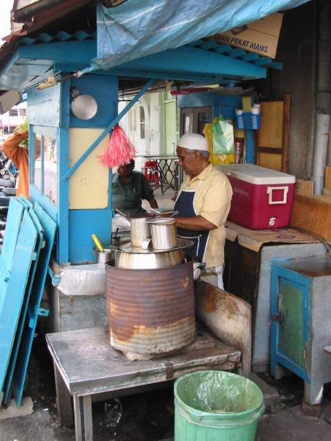 Malaysian Mamak stall MamakStall001.jpg